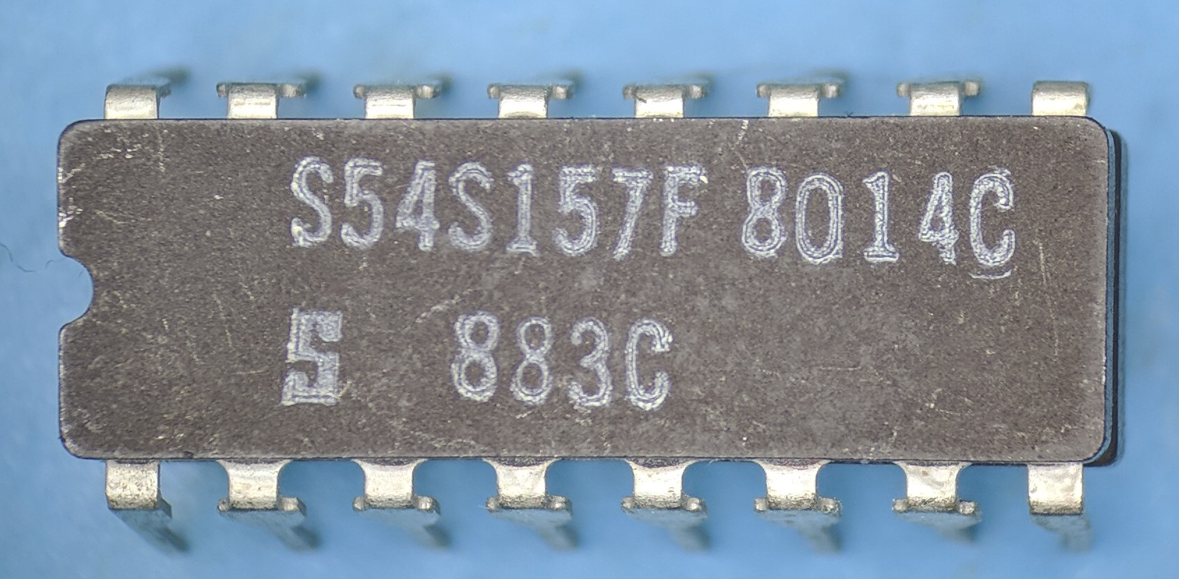 Package top of a Signetics 54S157 chip, datecode 8014.